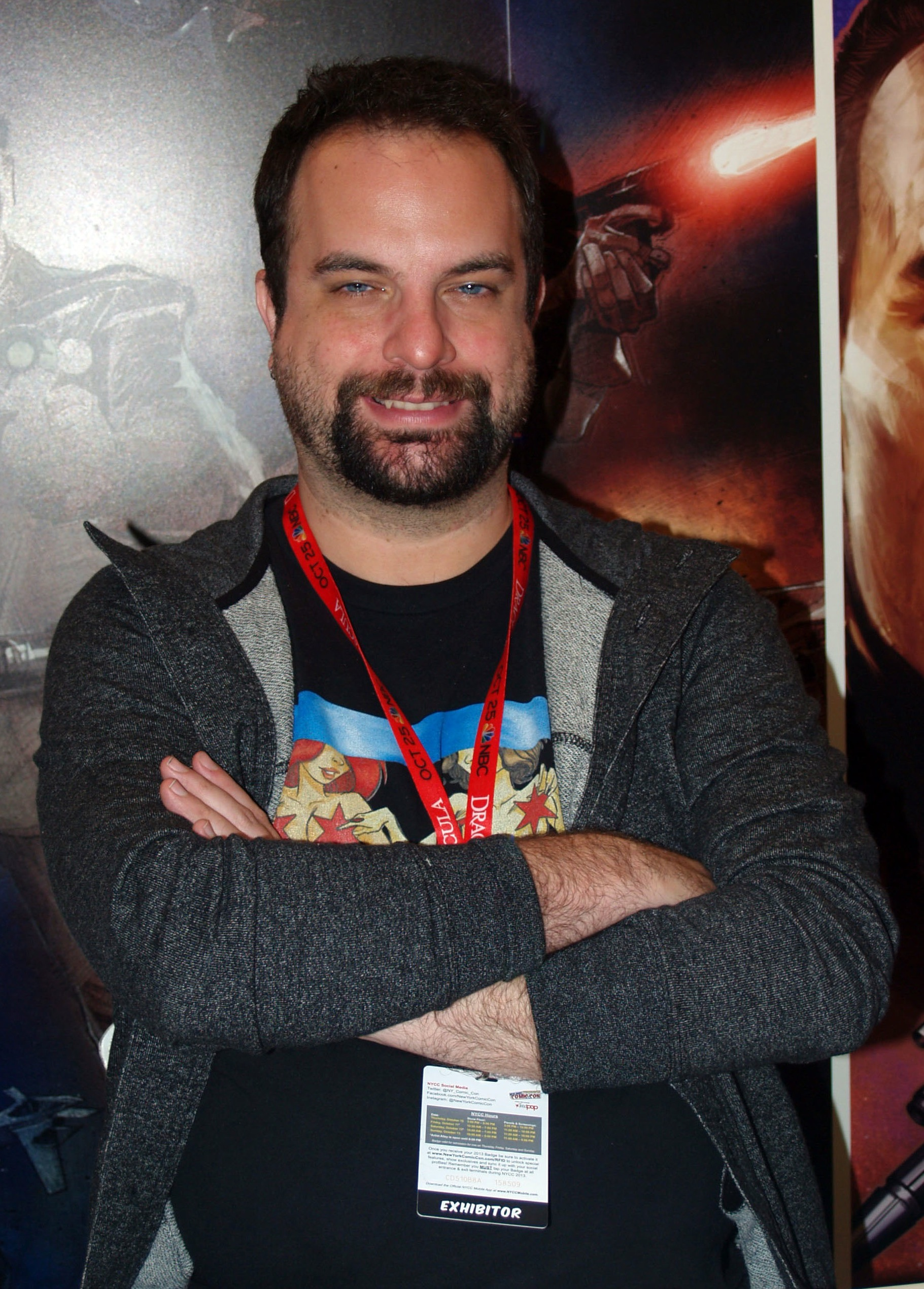 Comics writer/artist Tim Seeley at the ][Dark Horse Comics booth on Friday October 11, 2013 at the Jacob K. Javits Convention Center in Manhattan, Day 2 of the 2013 New York Comic Con. This photo was created by Luigi Novi. It is not in the public domain, and use of this file outside of the licensing terms is a copyright violation.